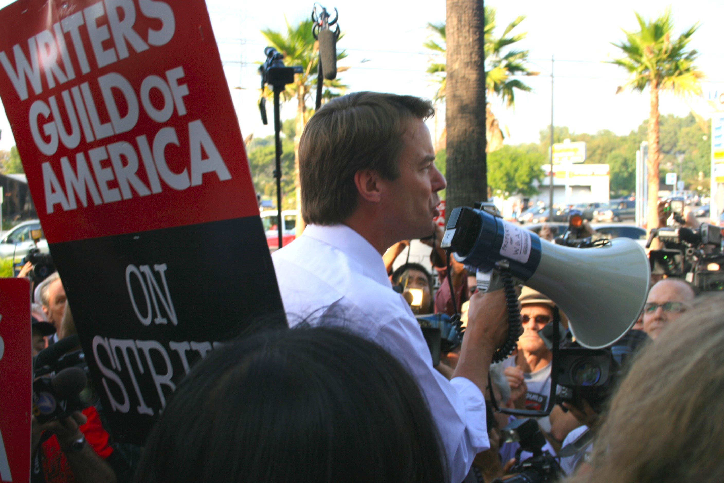 Presidential candidate John Edwards appeared at NBC studios wga strike rally in Burbank CA Nov 16, 2007.